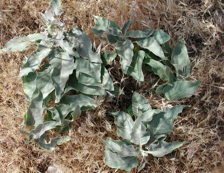 Asclepias nyctaginifolia from w. slope Mazatzal Mountains, Maricopa County, Arizona, USA.